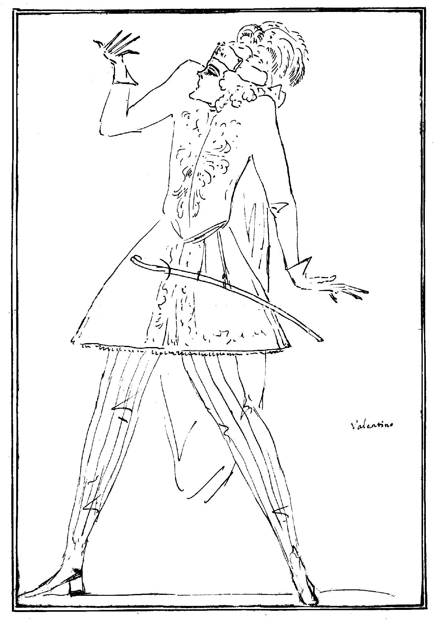 Valentino Urbani - caricature by Anton Maria Zanetti